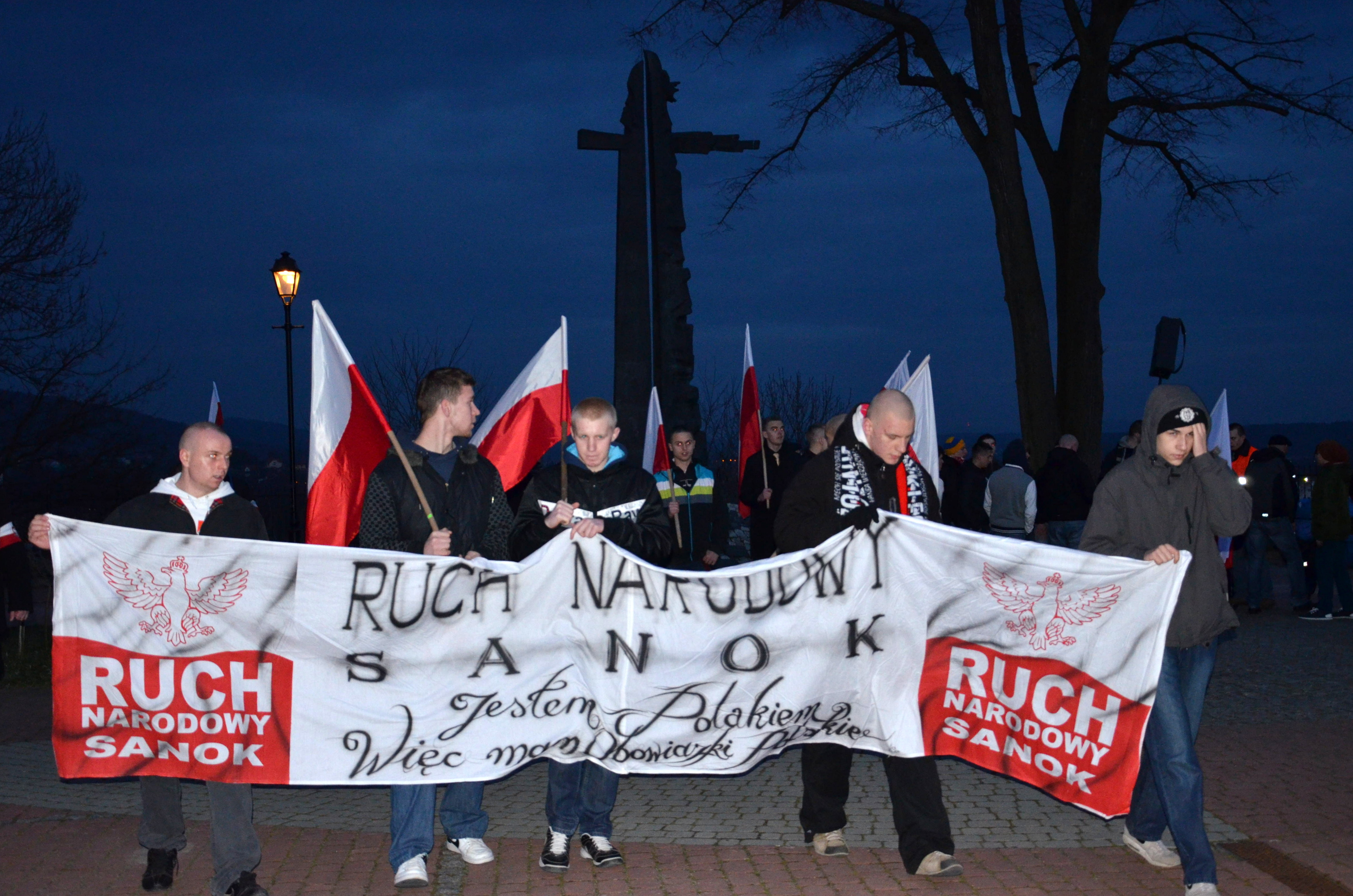 National Day Cursed Soldiers